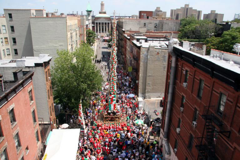 The Giglio tower of East Harlem being carried to the Shrine Church of Our Lady of Mt. Carmel located on 115 street.